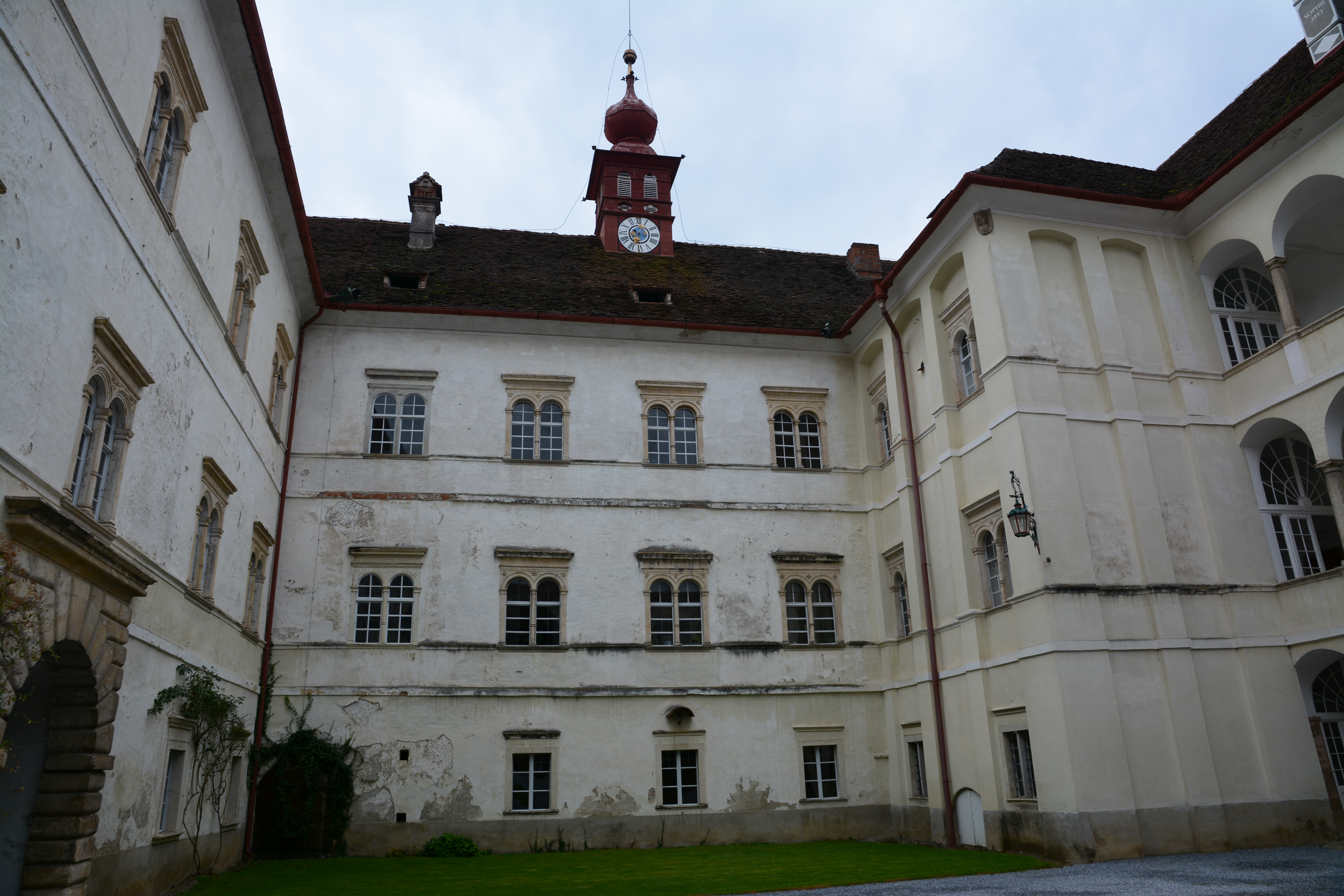 Schloss Thannhausen